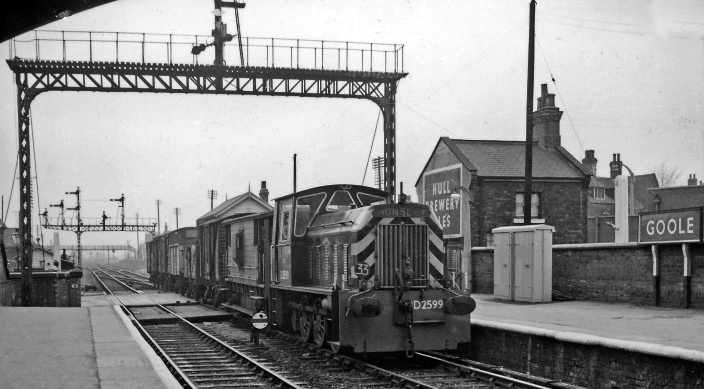 Goole Station, Goole, East Riding of Yorkshire, England.With Diesel-hauled goods trip. View NE, towards Hull; ex-North Eastern Hull - Doncaster, also Lancashire & Yorkshire line to Wakefield. Hunslet 204hp 0-6-0 Diesel-mechanical shunter (later Class 05) No. D2599 is passing on a short goods train.